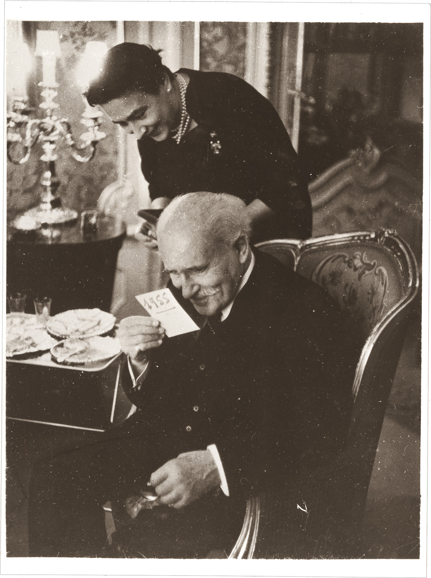 Portrait of Wally Toscanini Castelbarco, Arturo Toscanini. Photo by unknown, 1955.